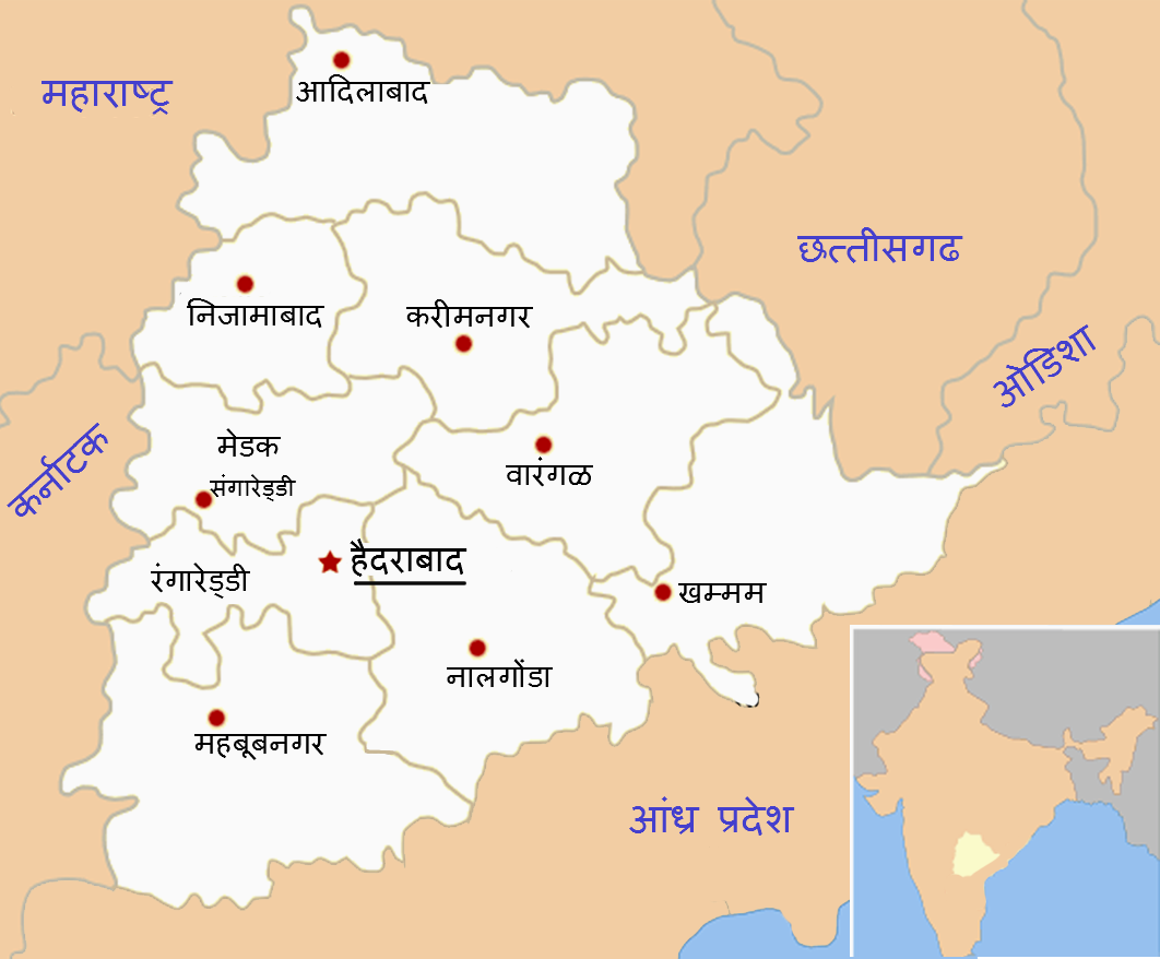 Districts of Indian state of Telangana in Devanagari